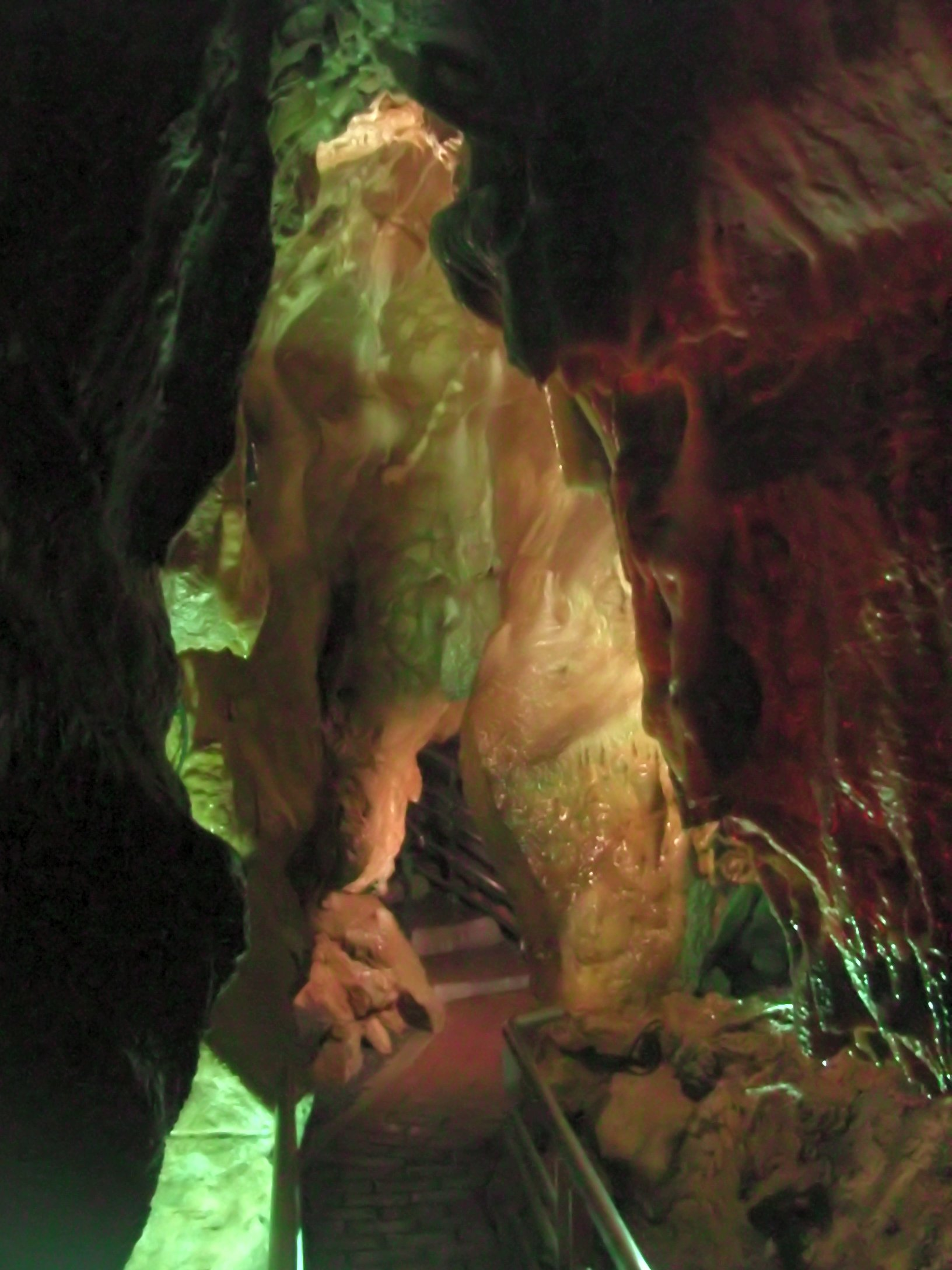 Toma shonyudo (Toma Limestone Cave) in Toma Town, Hokkaido, Japan